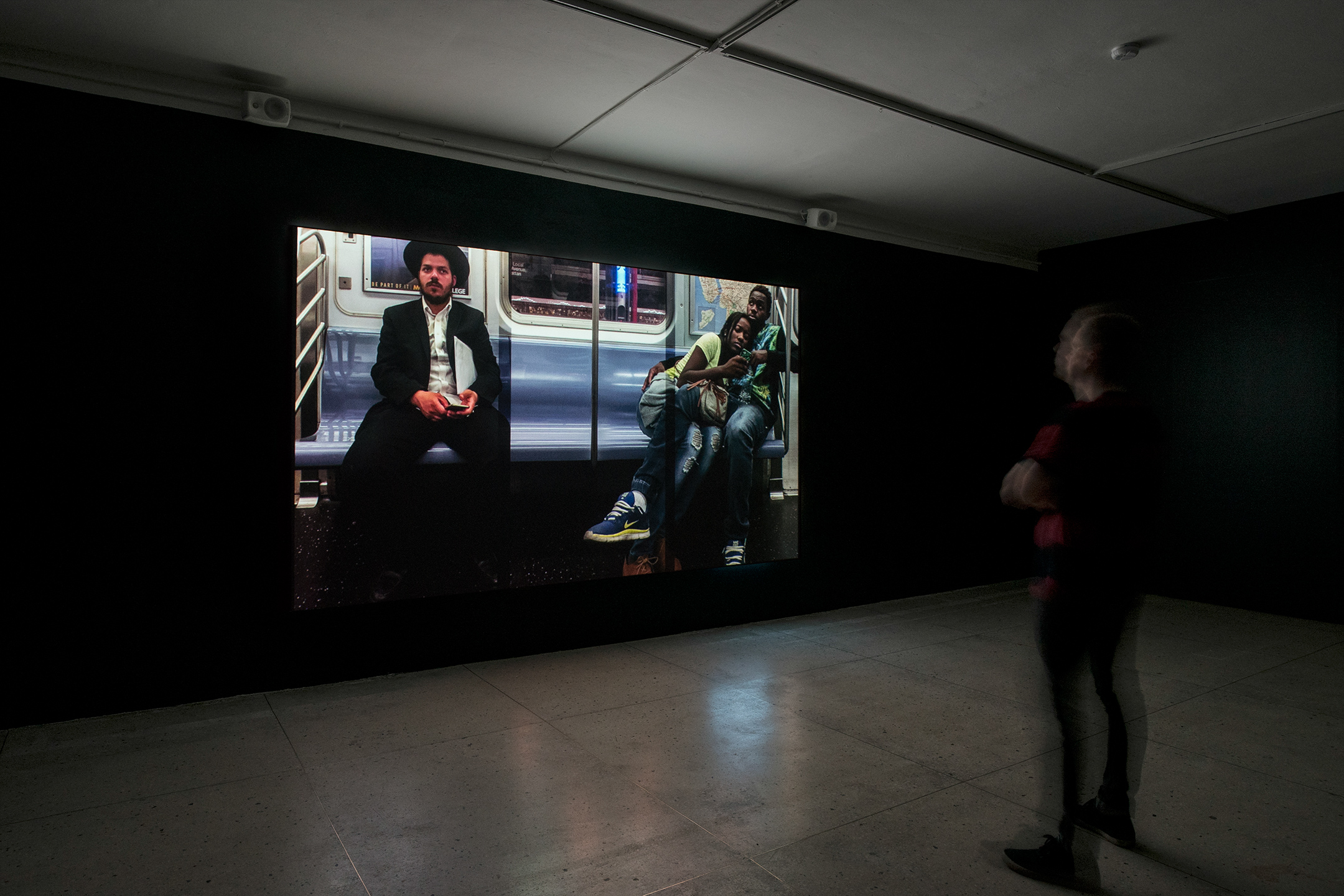 Single-channel HD video installation by Vytenis Jankūnas called “J 2 Manhattan & Back 24-7-365 in HD Vol. 1” is was on display in Tallinn Art Hall Gallery and is a part of the “Random Rapid Heartbeats. Selected projects from the CAC Vilnius programme” exhibition in Tallinn Art Hall (2016).